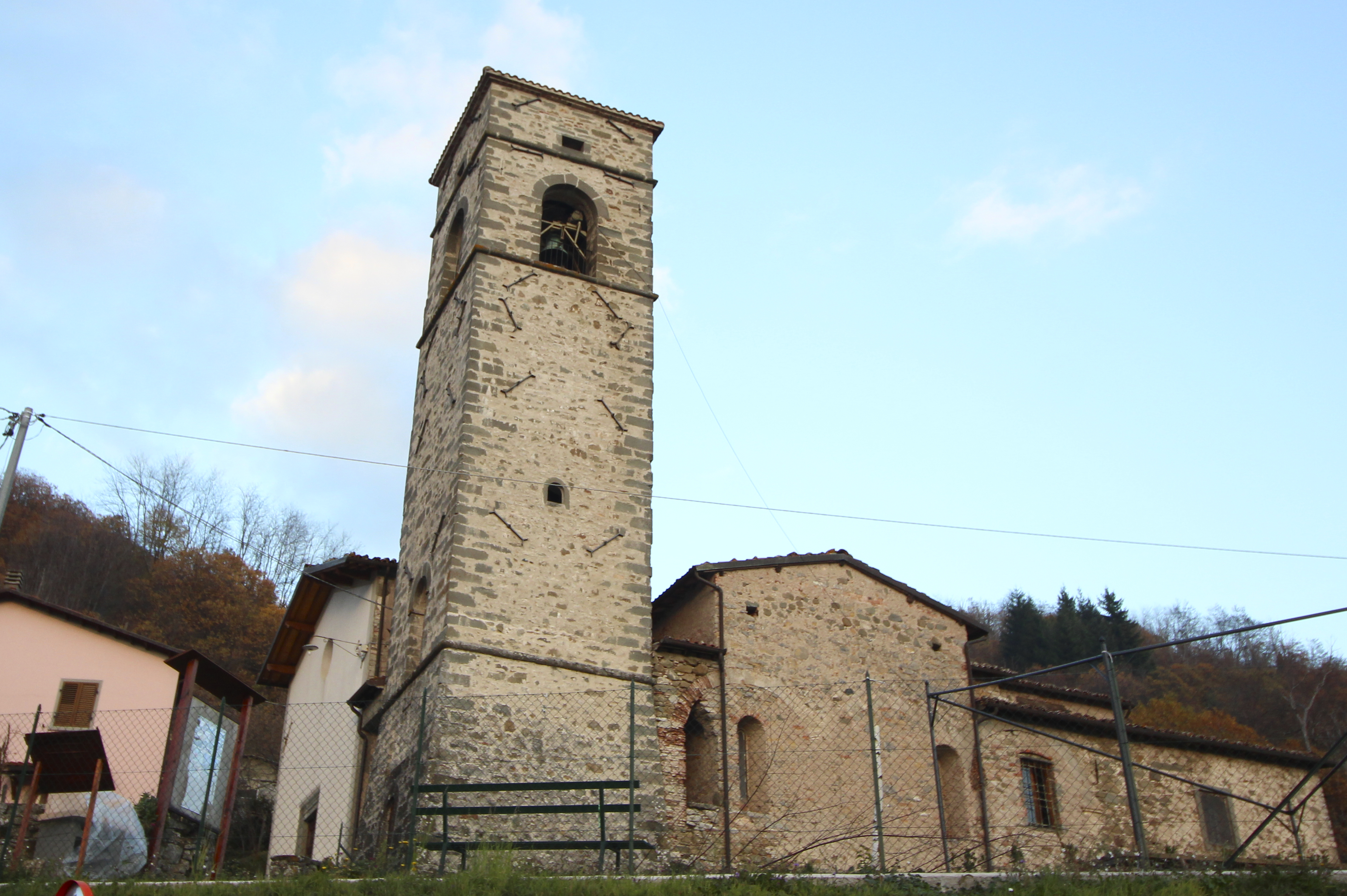 Church Santa Maria Assunta, Magnano, hamlet of Villa Collemandina, Garfagnana, Province of Lucca, Tuscany, Italy